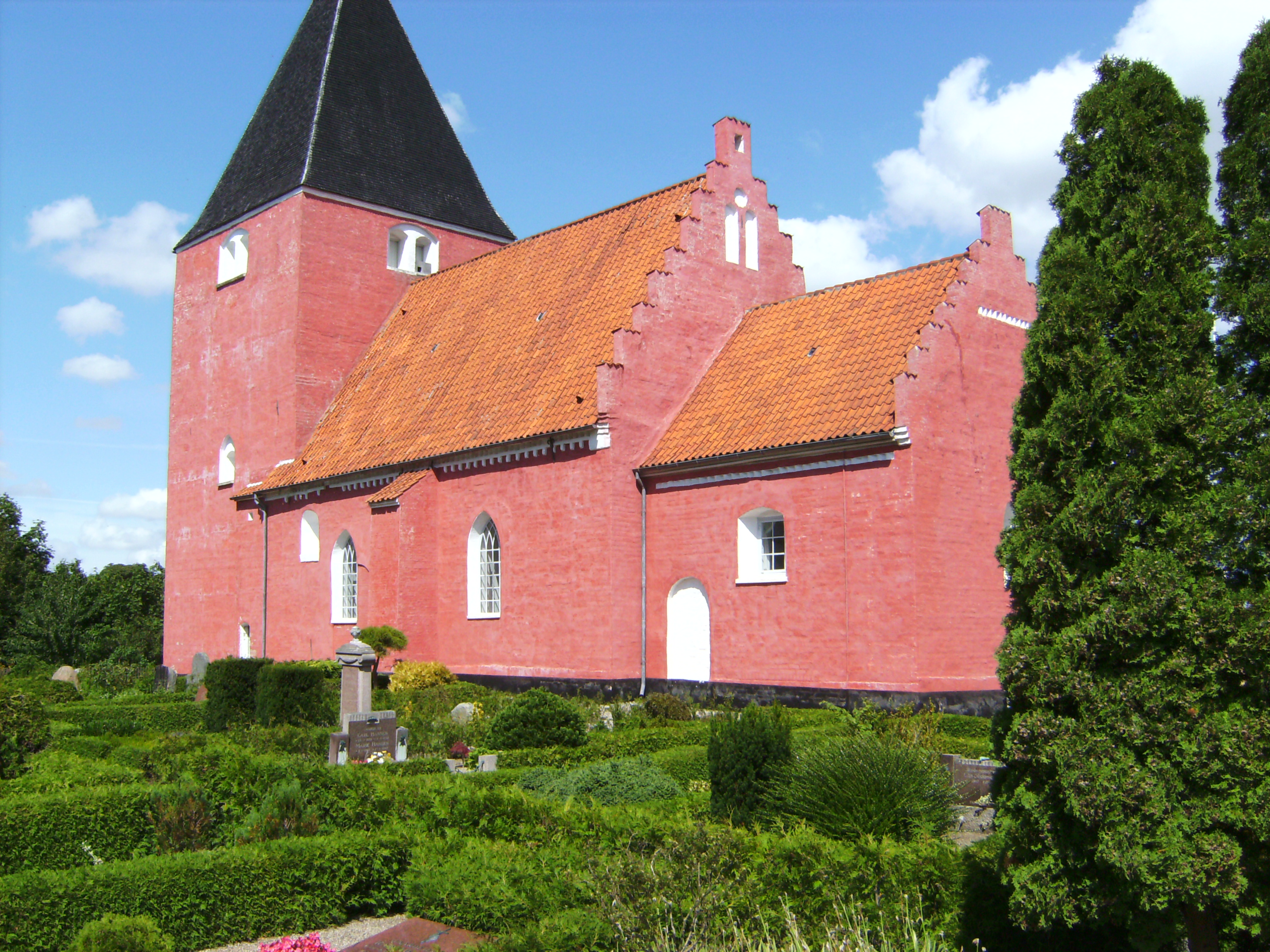 Church of Vester Ulslev, Denmark